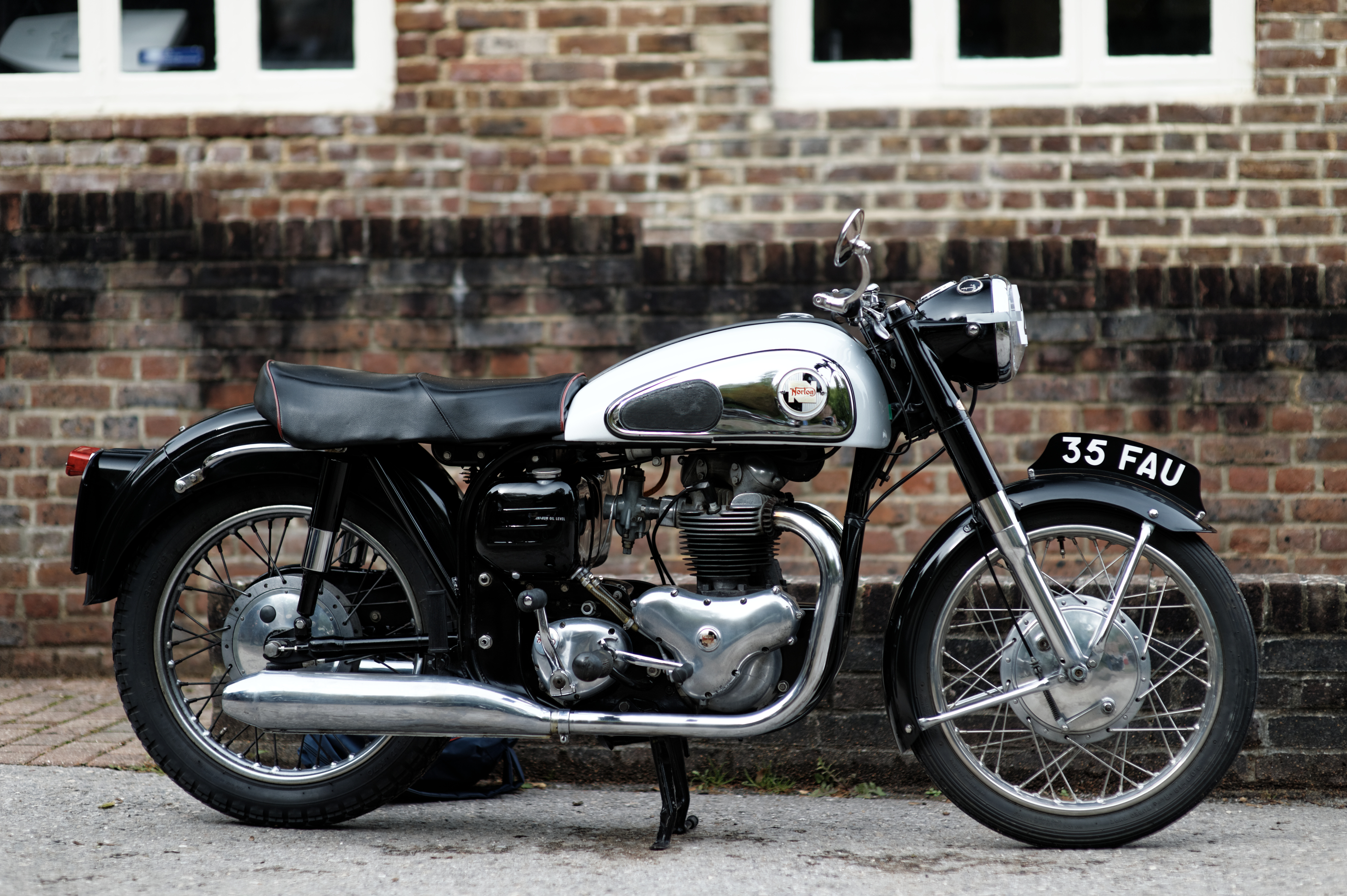 Norton Motorcycle